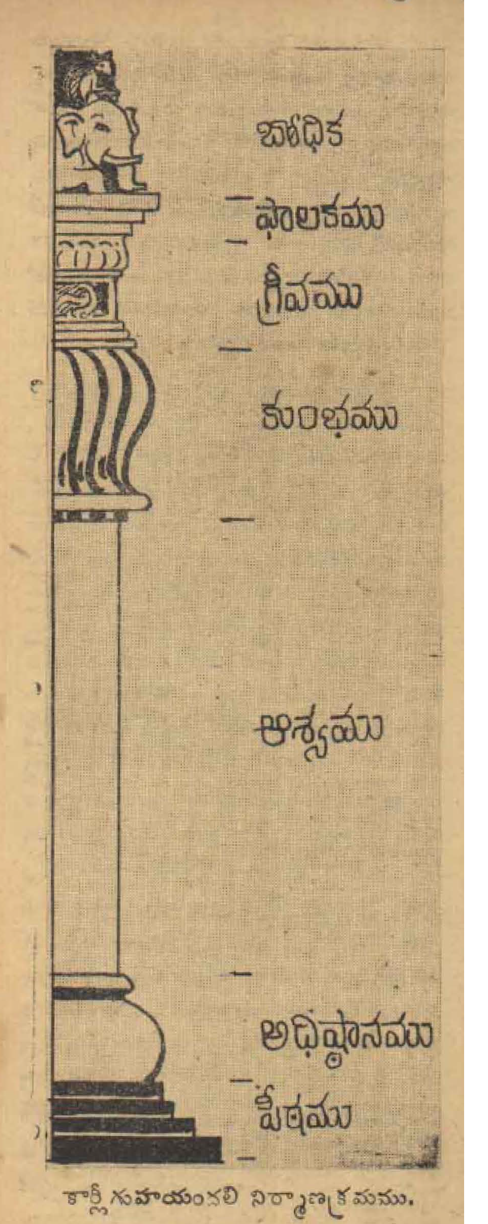 కార్ల గుహలు-స్తూపము